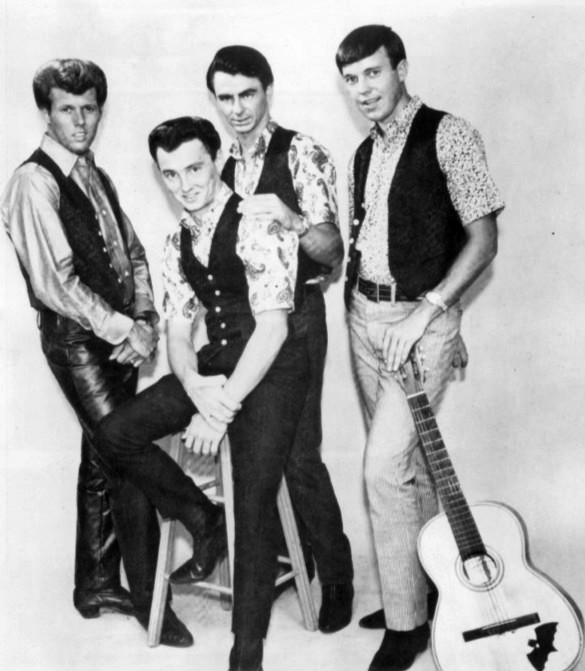 Publicity photo of the musical group The Classics IV.